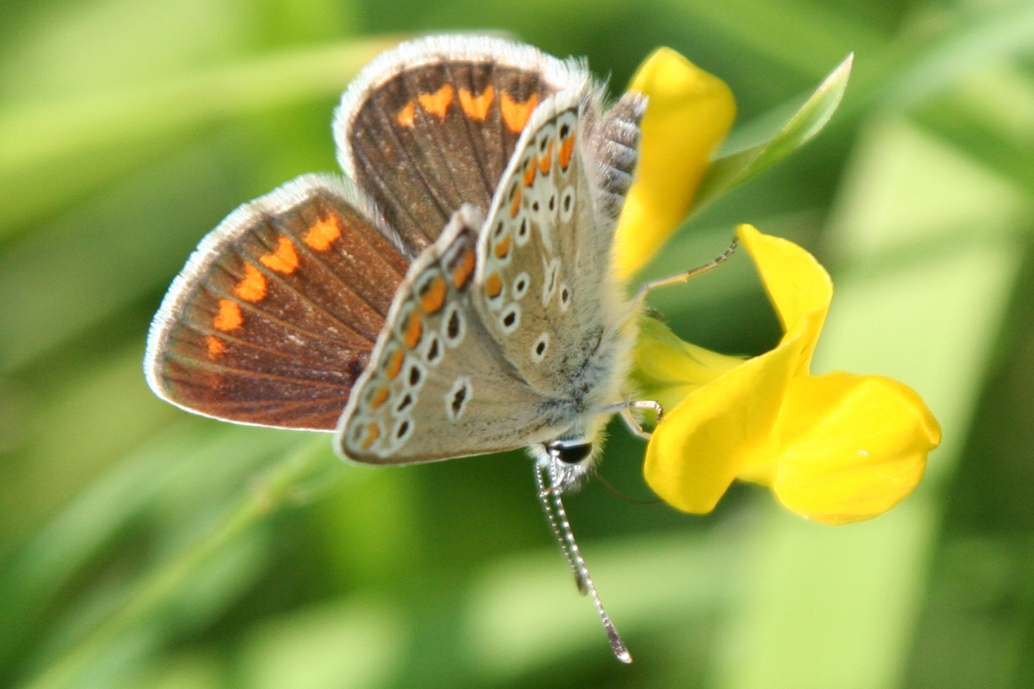 A Brown Argus butterfly (Aricia agestis), photographed on a meadow at the river Sulm in Obersulm-Affaltrach